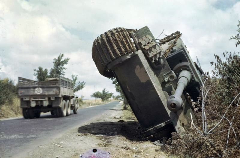 A German "Tiger I" tank on its side in a ditch, north of Rome, and an American lorry in the background driving past.